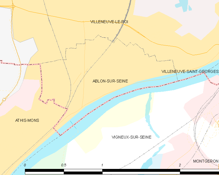 Map of French municipality Ablon-sur-Seine